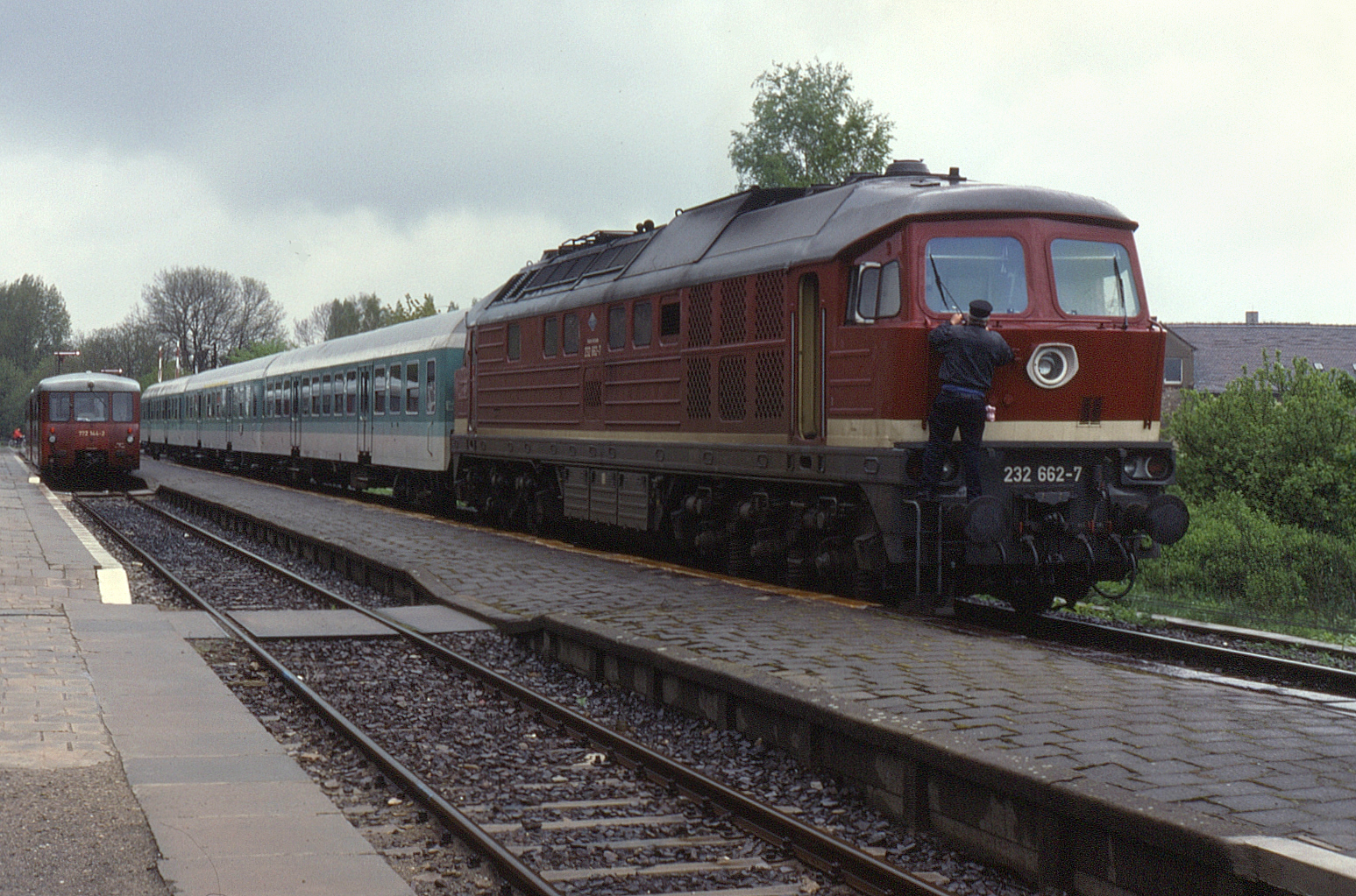 The driver of 232.662 attending to the windscreen wiper during its booked stop at Klostermansfeld. Train E4990, 5 May 1994.